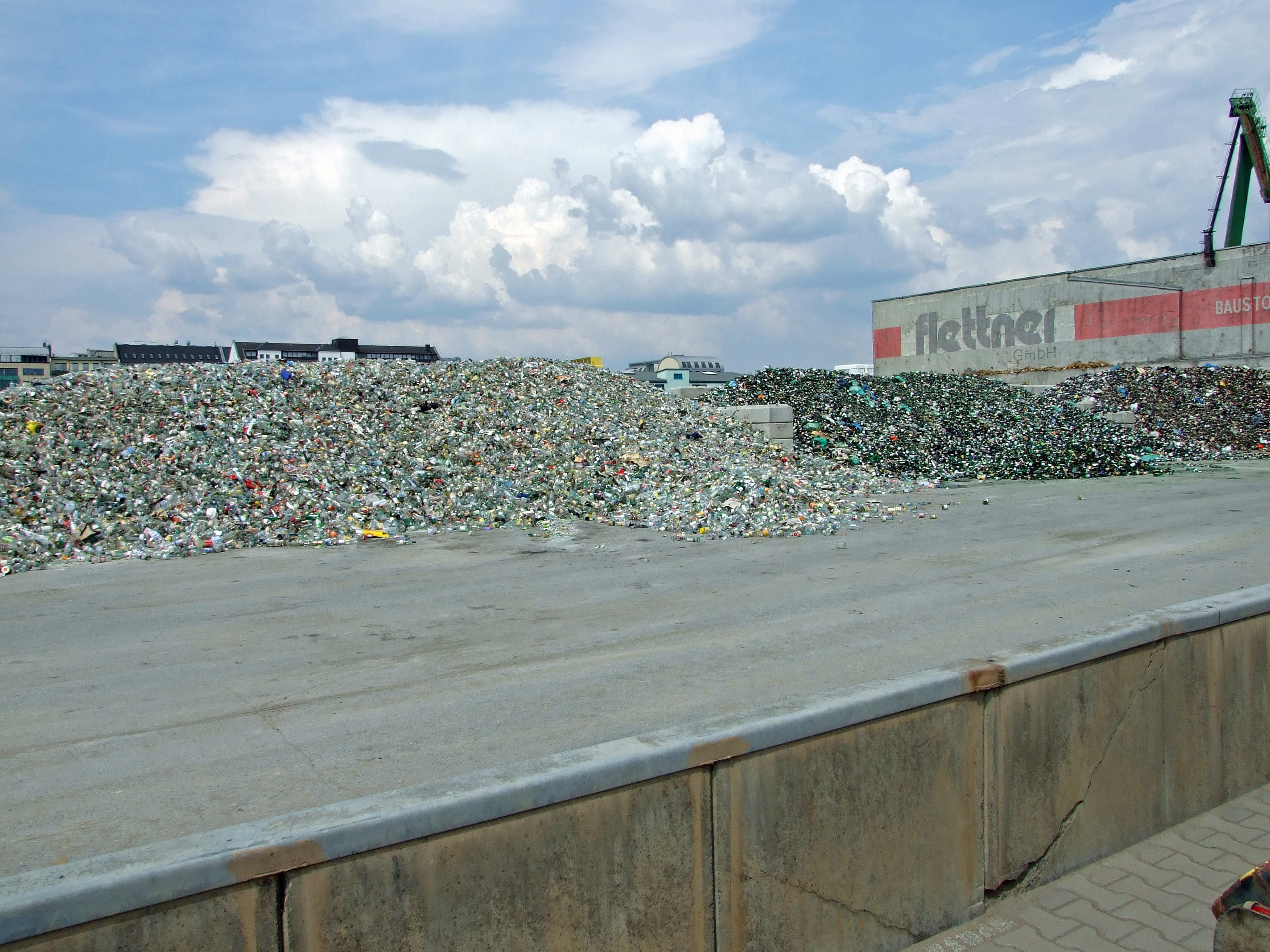 Waste glass at Osthafen in Frankfurt am Main Ostend